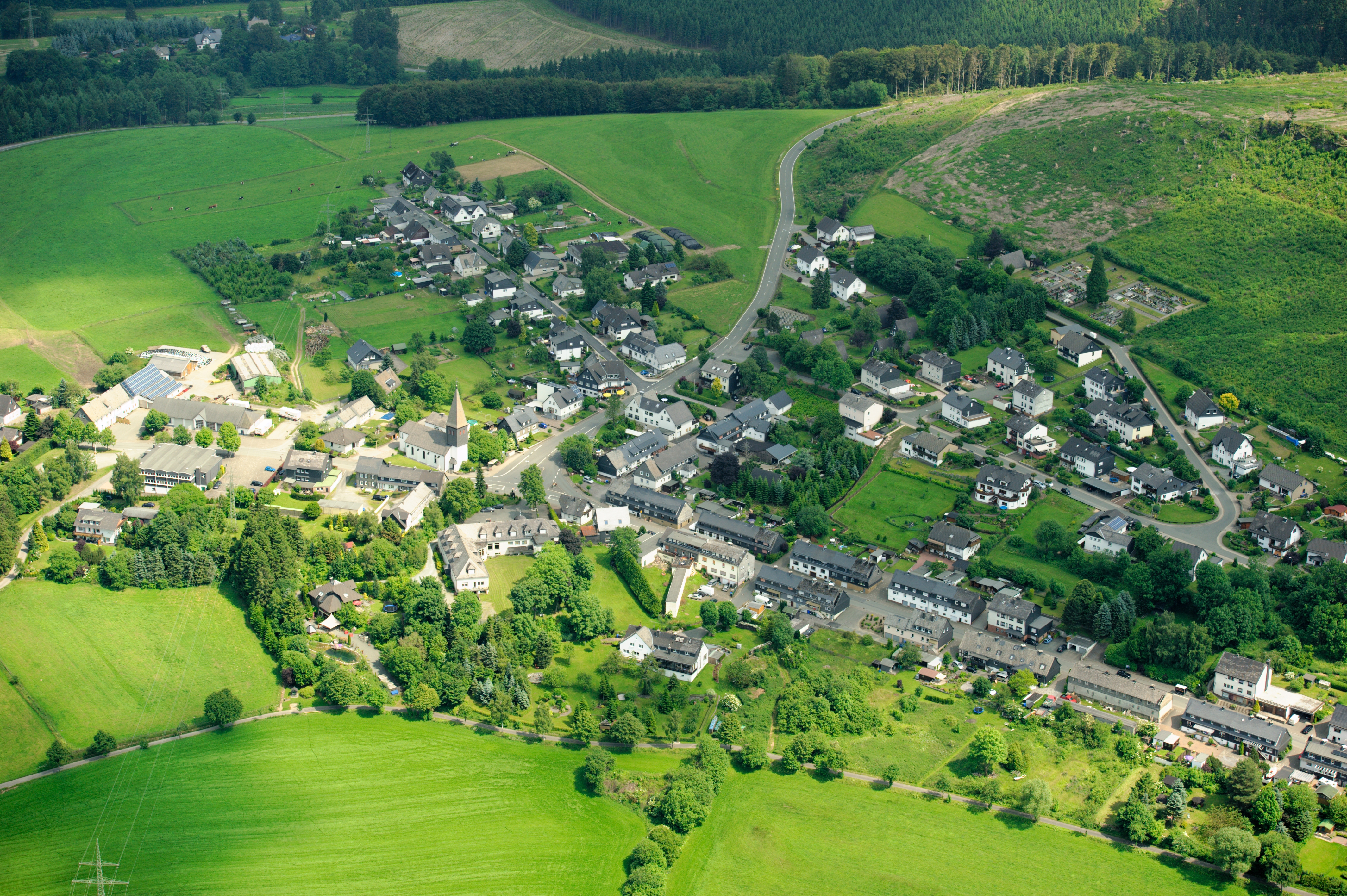 Fotoflug Sauerland-Ost, Bestwig-Andreasberg The making of this document was supported by the Community-Budget of Wikimedia Germany.